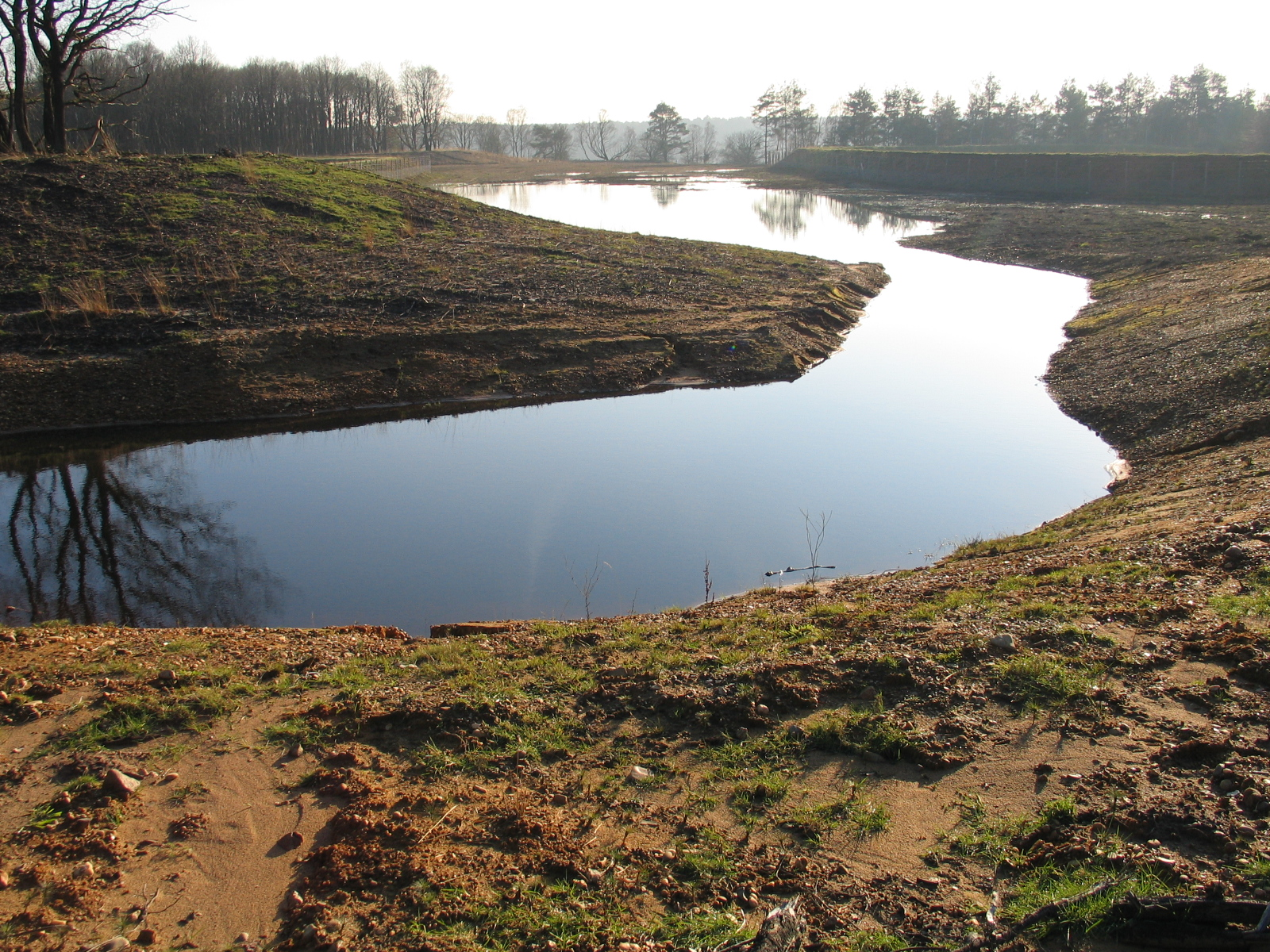 Hoge Kempen Belgium - own work by Paul Hermans